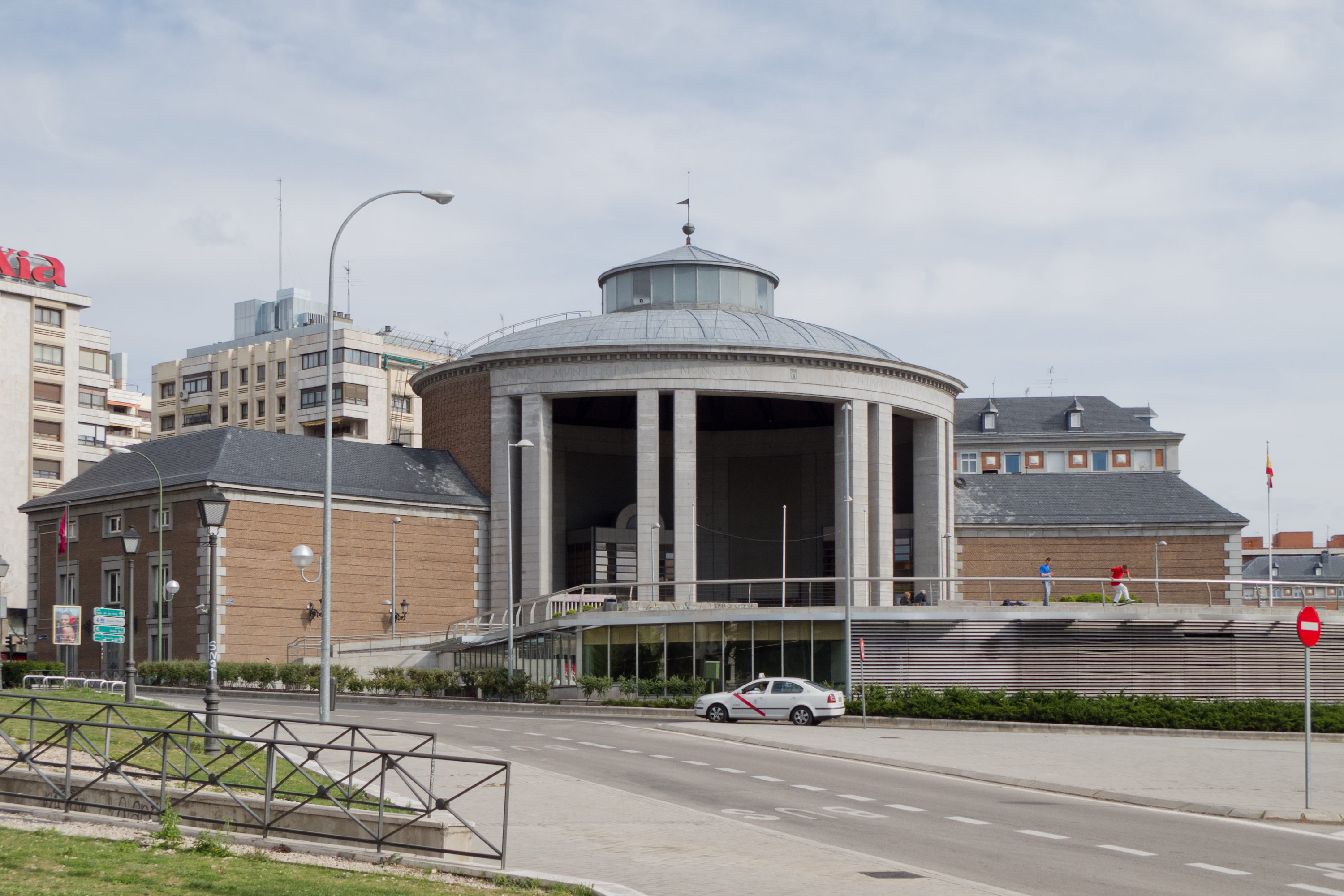 Moncloa-Aravaca District Council, Madrid, Spain.